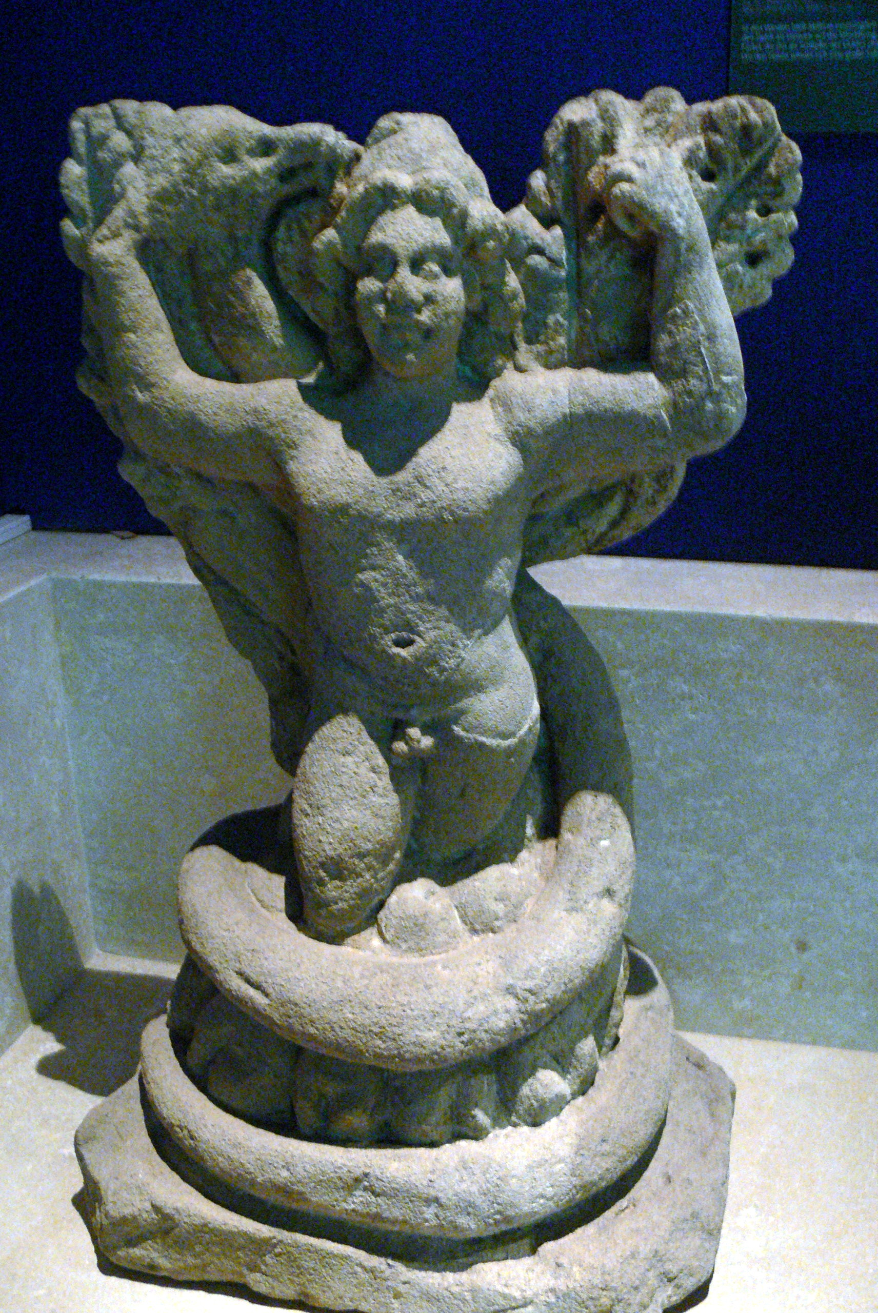 Museum Carnuntinum ( Lower Austria ). Statue of Petra genetrix ( Mithras being born from a rock ).